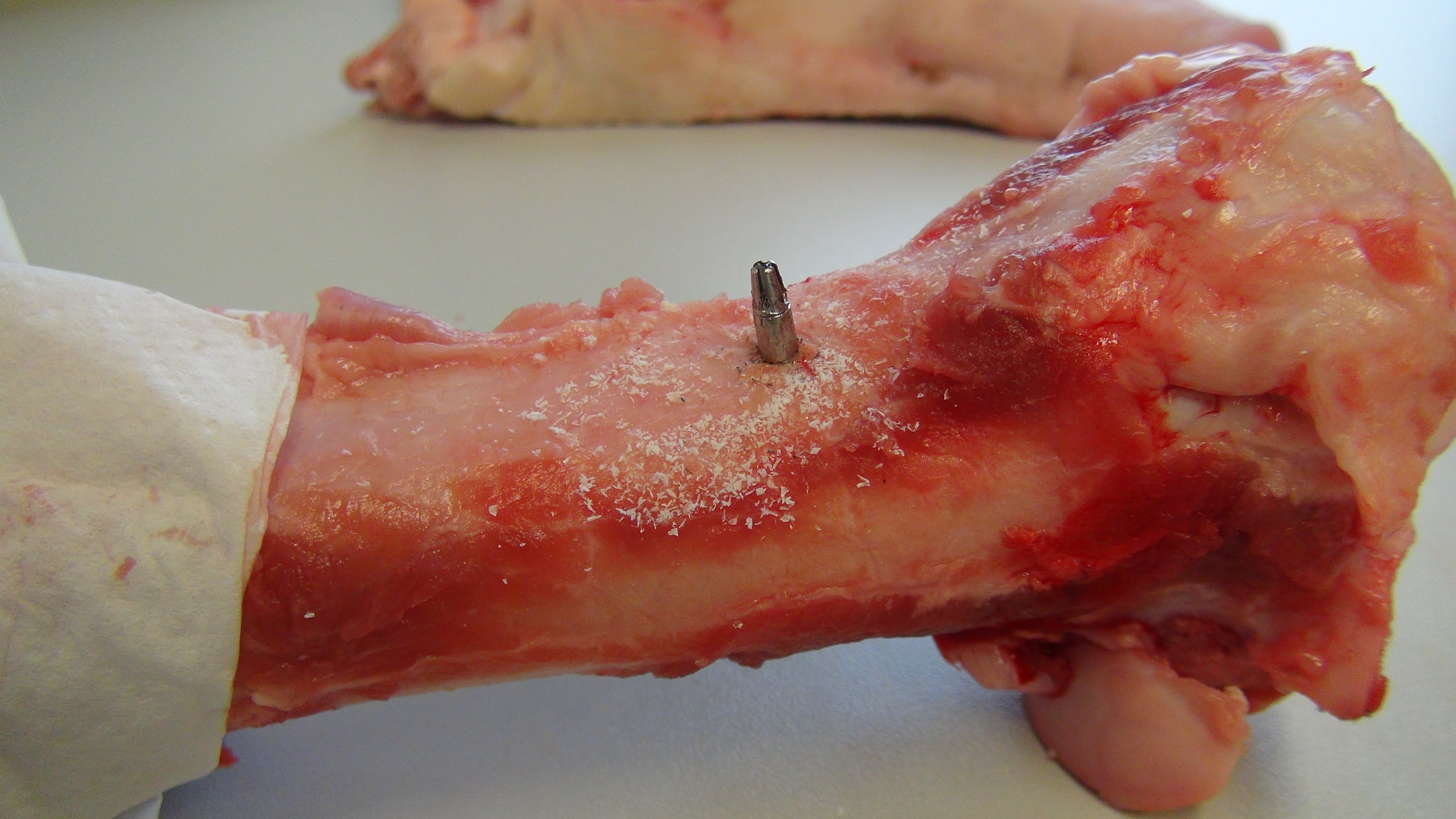 Implant materials from medical grade titanium with coatings applied by atomic layer deposition (ALD) method are tested by inserting the screw-implants into pig's femur. This allows to assess the adhesion of the coating to the implant as well as the durability of the coating during insertion. These experiments are carried out in the University of Tartu, Institute of Physics, Thin Film Laboratory. One of the laboratory's focuses is working with thin biocompatible coatings that enhance bone growth on medical grade titanium implants. For inserting dental implants coated by ALD method into the bone, a slightly smaller hole is previously drilled into the bone. After removing the implants from the bone, the condition of implant surface as well as the deposited coating are studied.